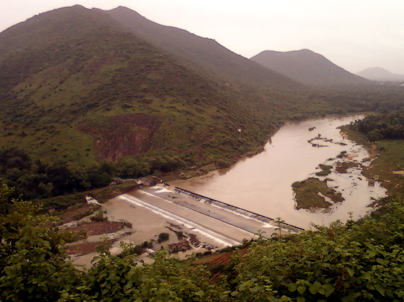 A view of Denkada Barrage at Saripalli in Vizianagaram District of Andhra Pradesh